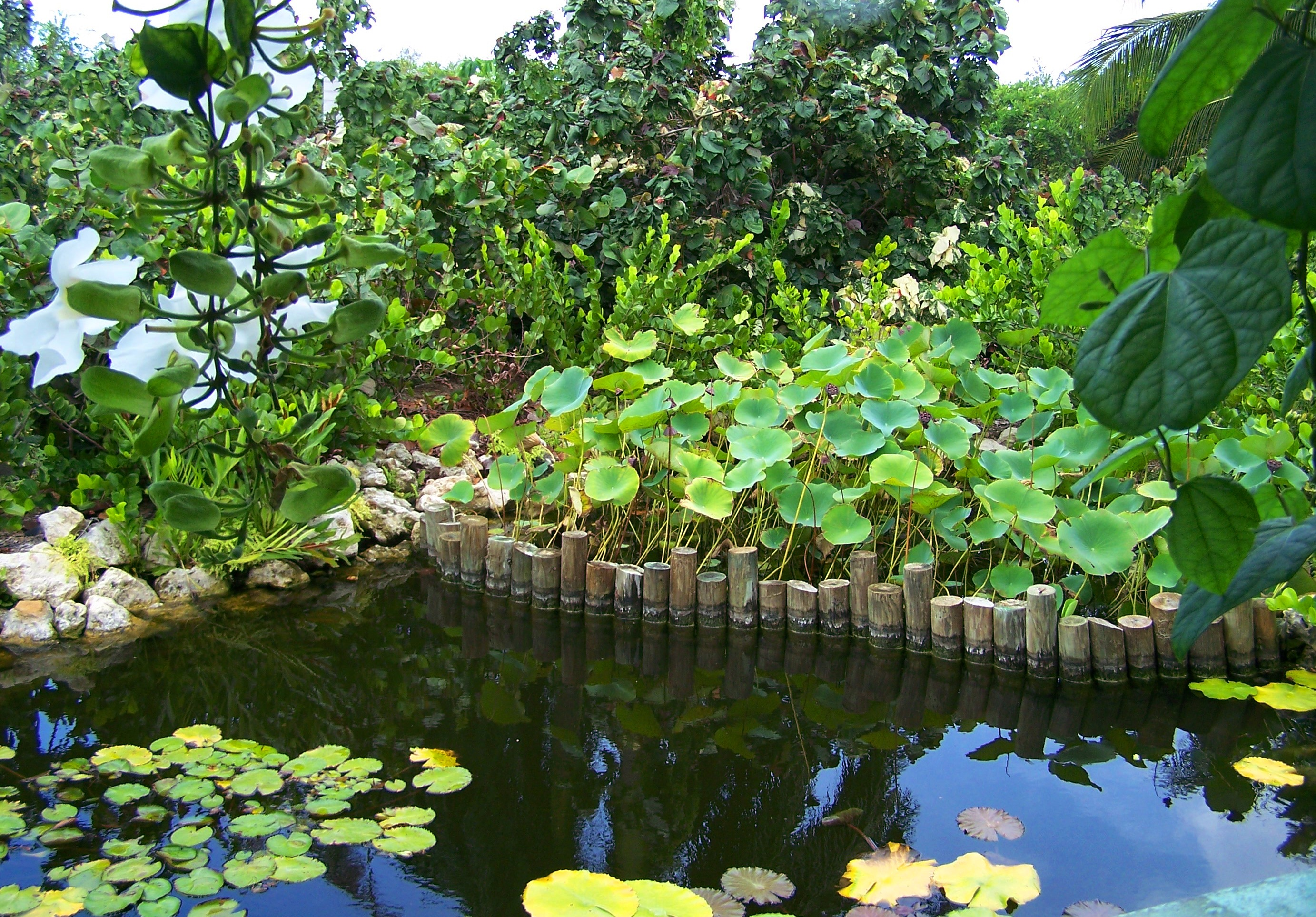 Lily pond in the Floral Colour Garden at QEII Botanic Park